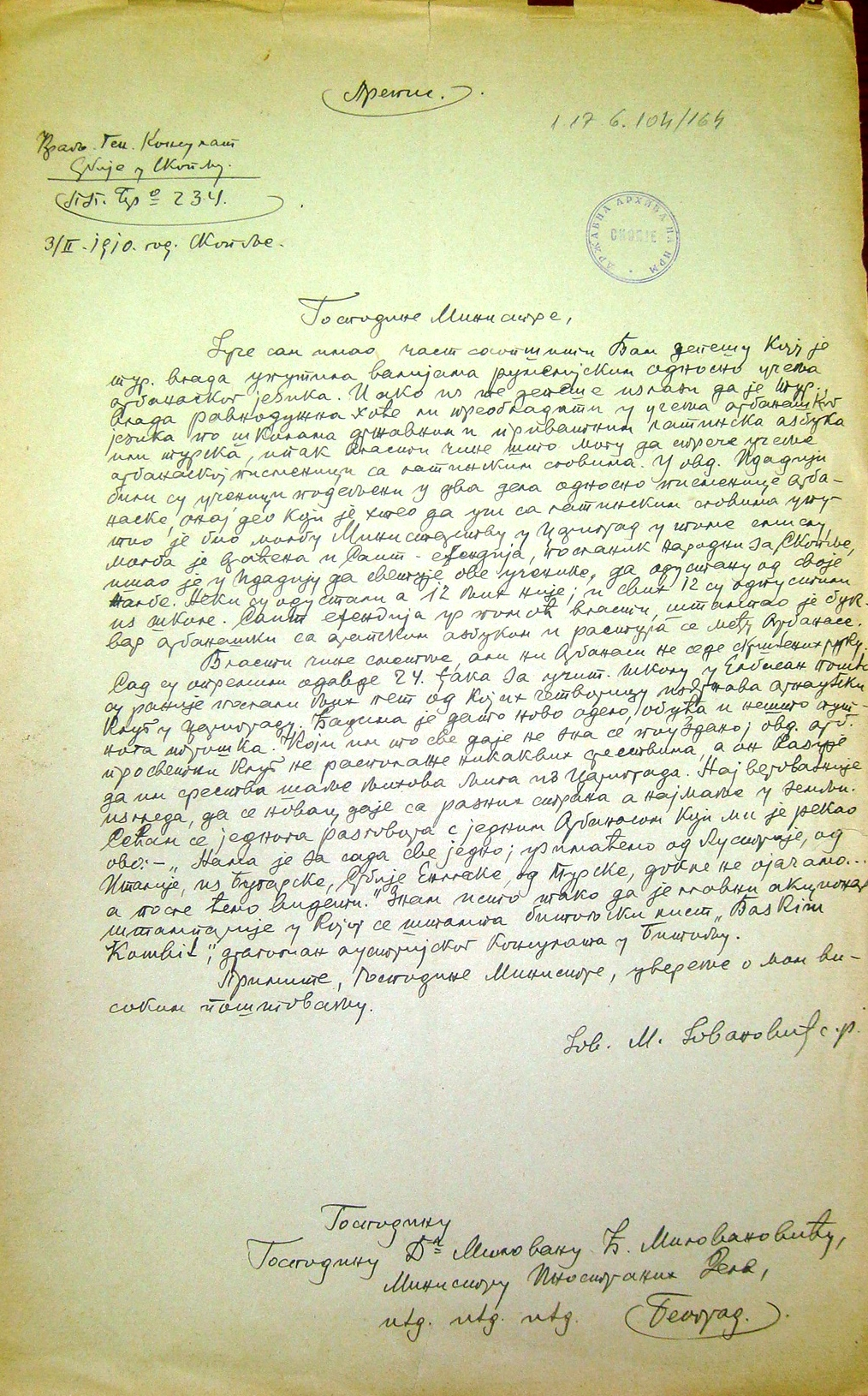 Report which indicates that despite the Turkish government gave permit for the use of the Latin alphabet in Arnaout schools, local authorities do not use it or try to persuade students to drop it. (Skopje, February 3, 1910) This media file is produced by Wikipedian in Residence in Category:Wikipedian in Residence at DARM in 2016.